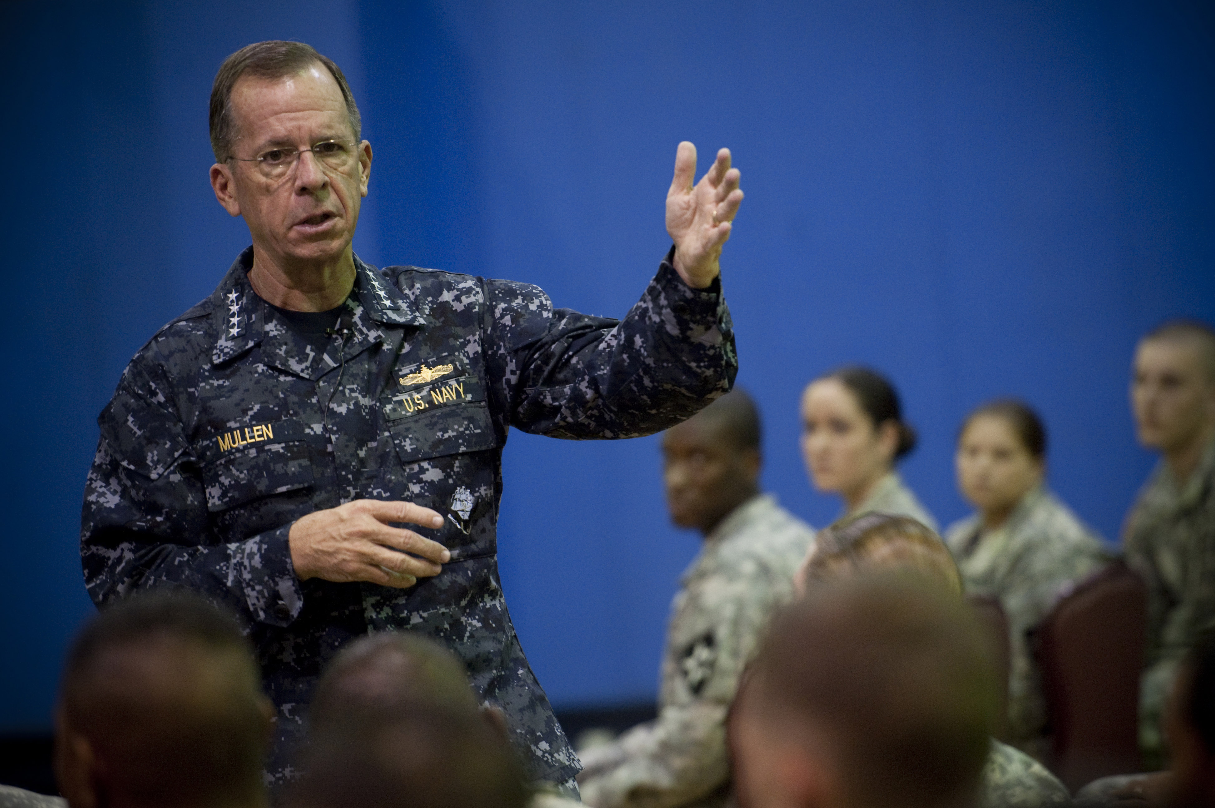 Chairman of the Joint Chiefs of Staff Adm. Mike Mullen, U.S. Navy, answers questions during an all hands call with soldiers assigned to the 2nd Infantry Division stationed at U.S. Army Garrison Red Cloud, Republic of Korea on July 21, 2010. Mullen is in Korea with Secretary of Defense Robert M. Gates and Secretary of State Hillary Clinton to participate in counterpart talks underscoring the alliance between the two nations.